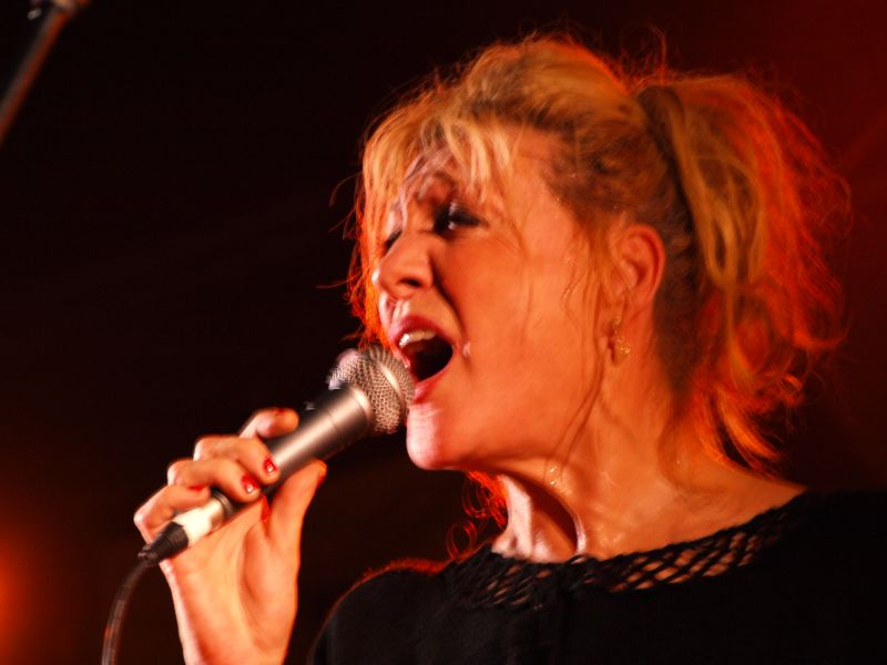 Narooma Blues Festival New South Wales, Australia 2007